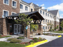 Staybridge Suites, Maple Grove, Minnesota